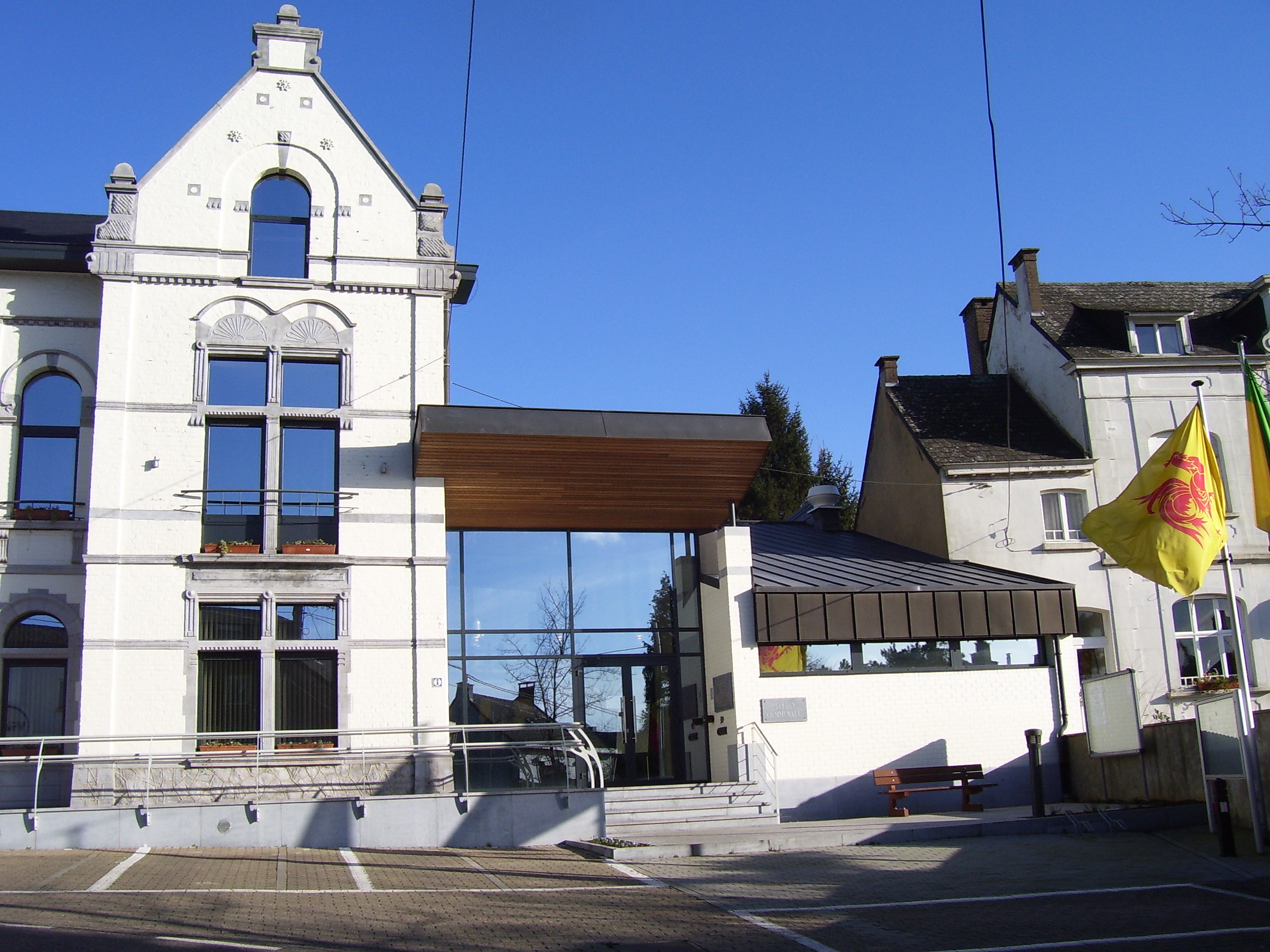 Maison Communale (municipality) of Mont-Saint-Guibert, Belgium